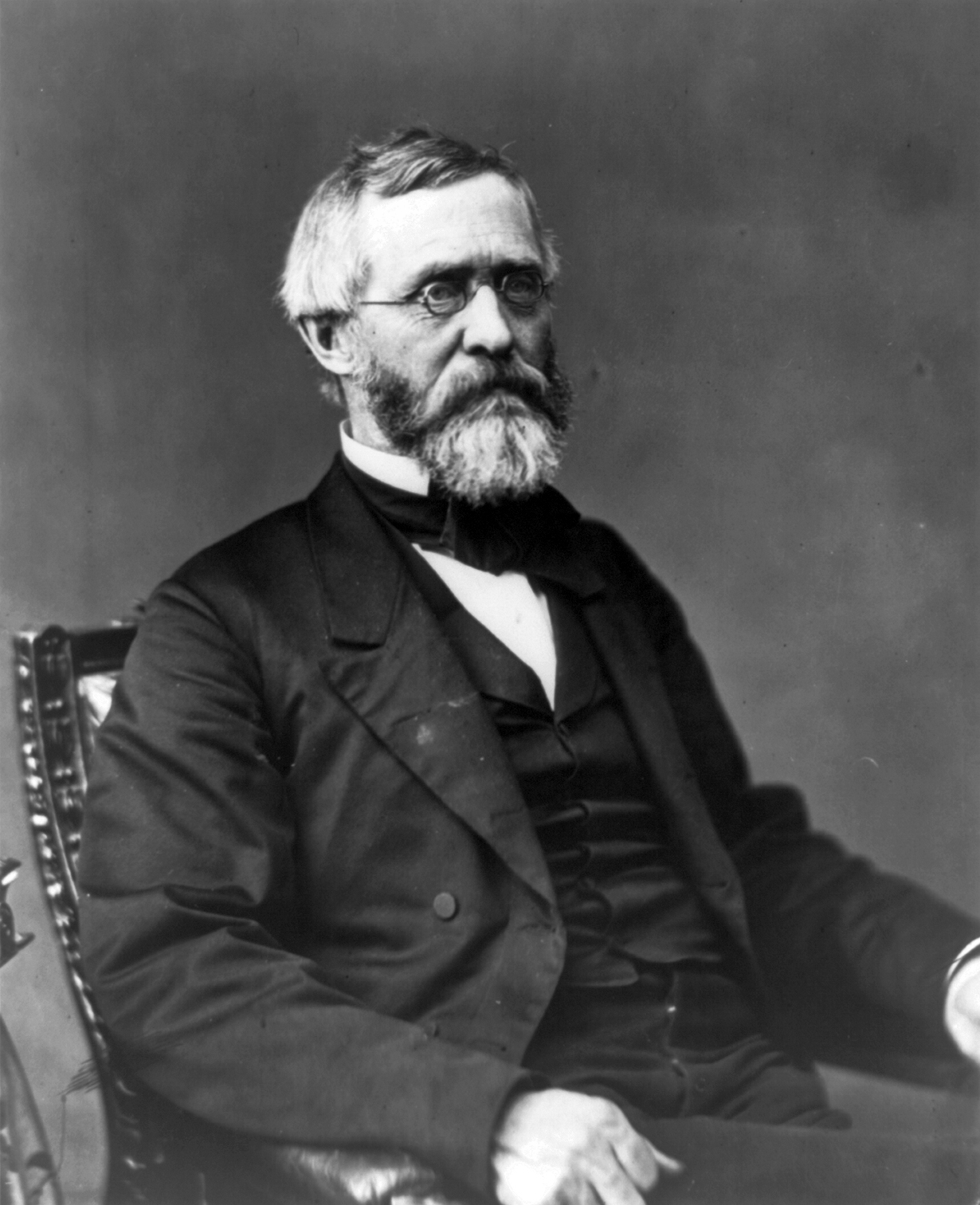 Ebenezer R. Hoar, half-length portrait, seated